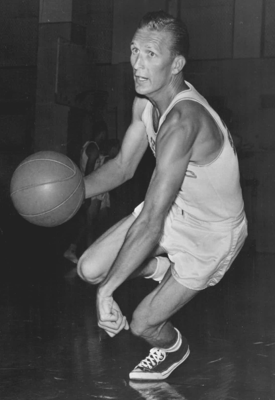 Professional basketball player Slater Martin